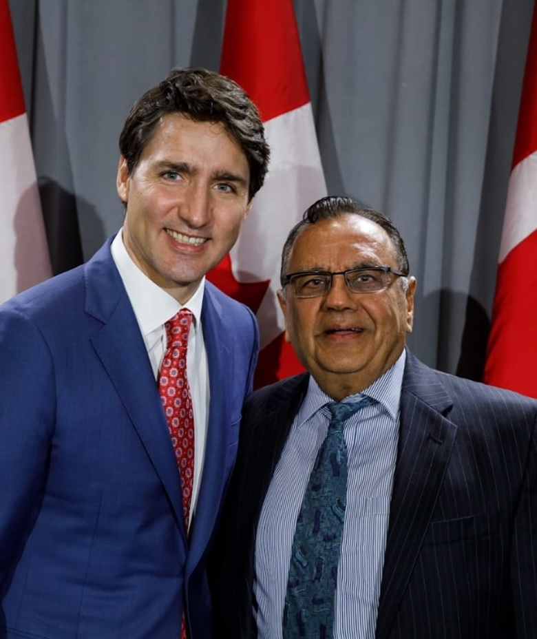 Kacee Vasudeva with The Honourable Prime Minister of Canada Mr. Justin Trudeau